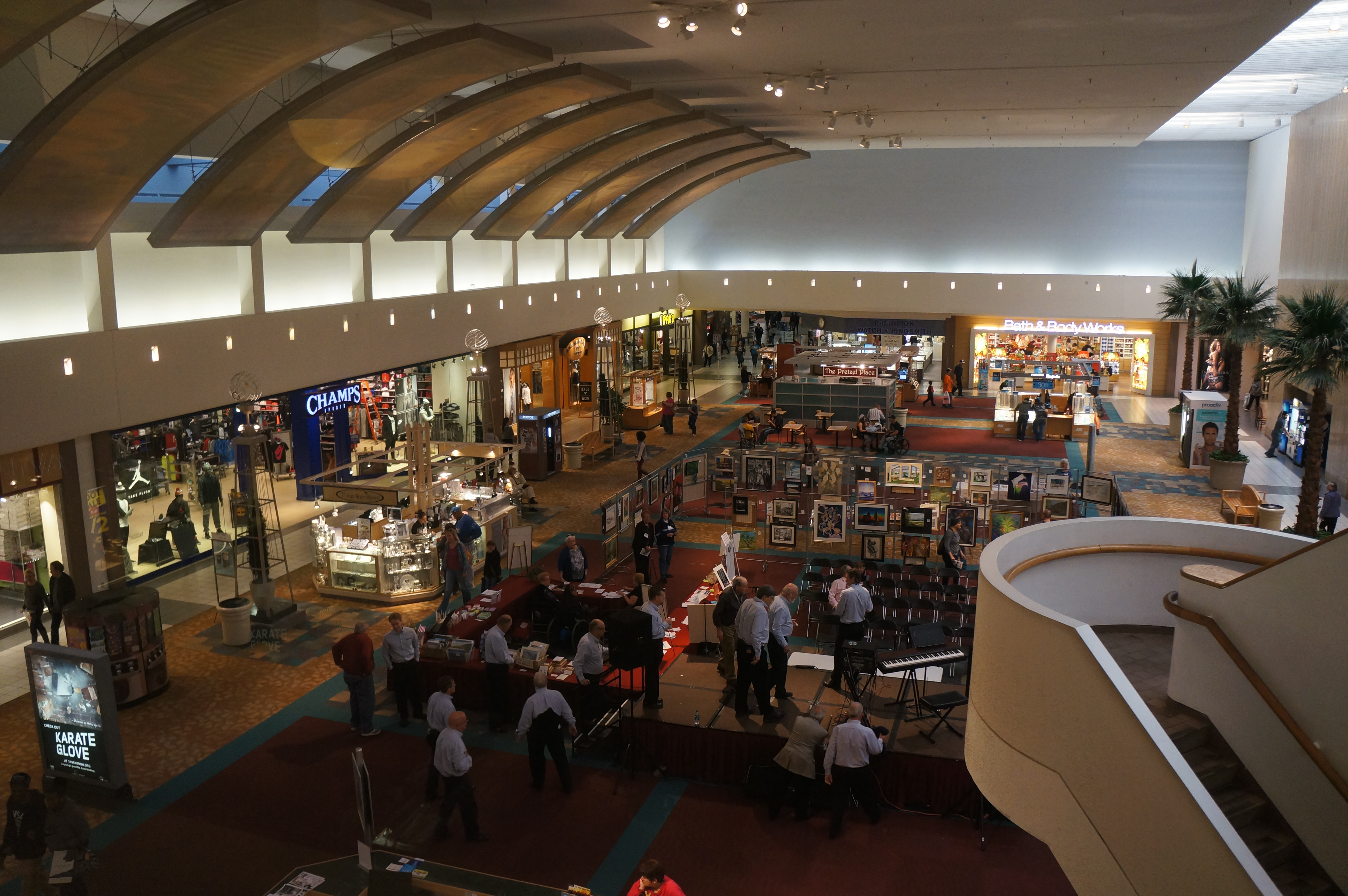 The East lobby of the Westland Shopping Center.